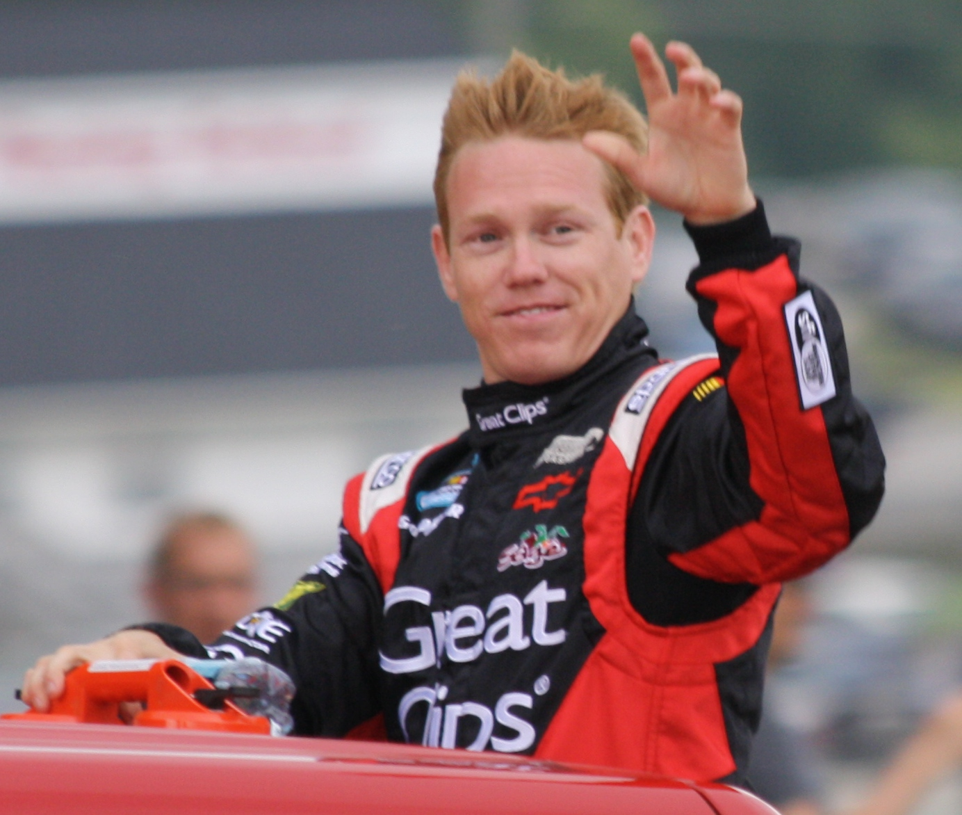 NASCAR driver Brad Sweet during driver's introductions at the 2012 Sargento 200 Nationwide Series race at Road America.